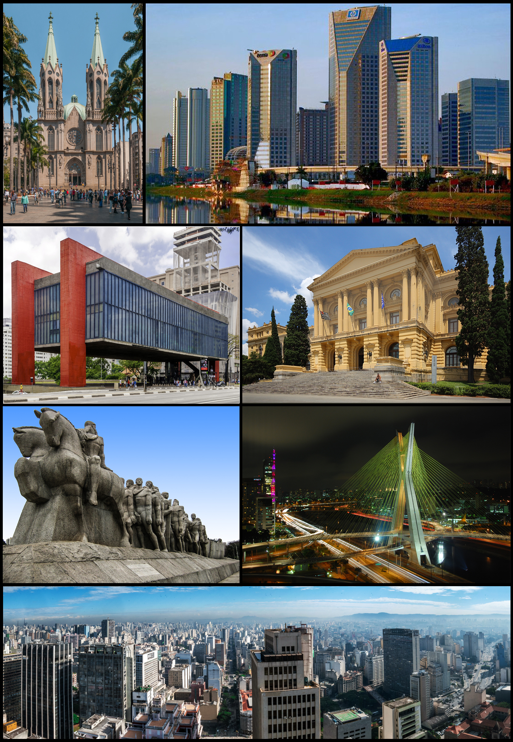 Photo montage of the city of São Paulo, Brazil. From the top, left to right: São Paulo Cathedral, United Nations Business Center, São Paulo Museum of Art on Paulista Avenue, Paulista Museum, Bandeiras Monument, Octávio Frias de Oliveira Bridge, and overview of the historic downtown from Altino Arantes Building